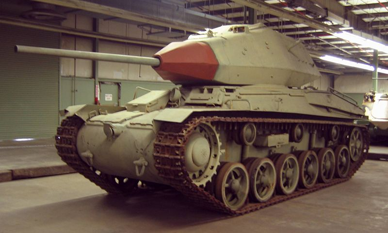 Battle tank Strv 74 at the American Armored Foundation Museum in Danville, Virginia. This is the only Strv 74 in the Western Hemisphere.